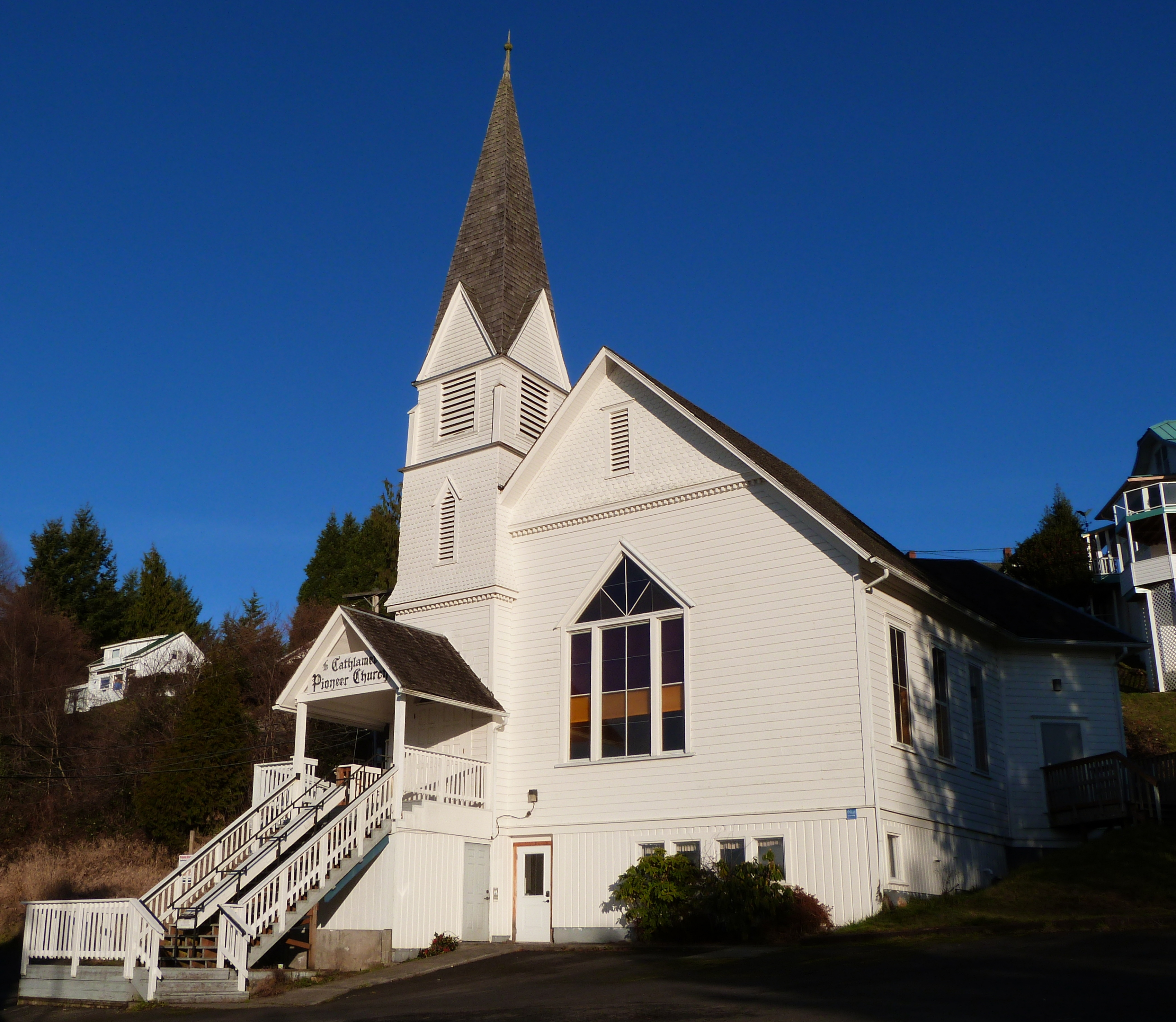 The historic Cathlamet Pioneer Church (built 1895), located on Alley Street in Cathlamet, Washington, United States, is listed on the US National Register of Historic Places.